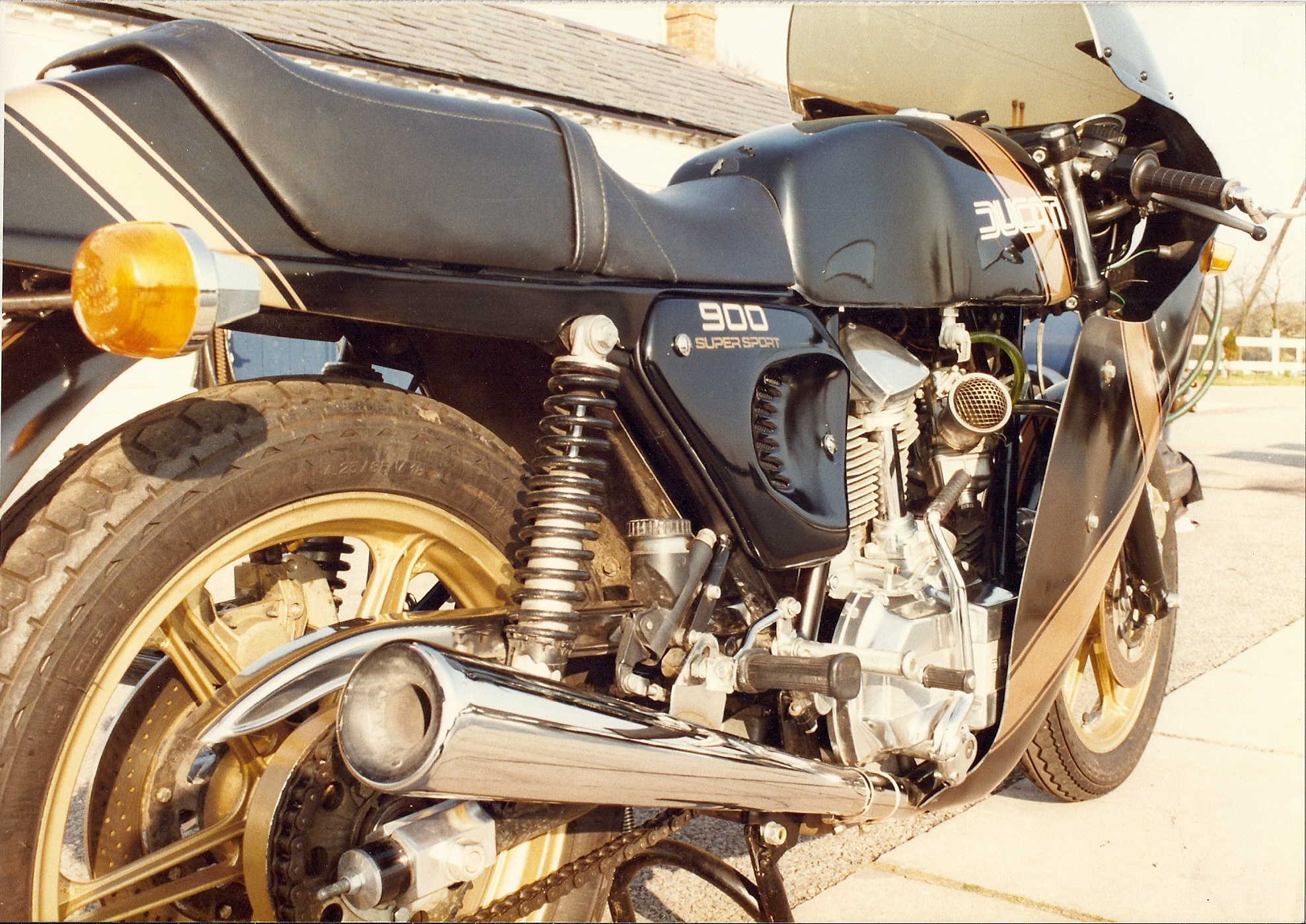 864cc UK spec with after market Conti-replica exhausts and after market Mike Hailwood fairing